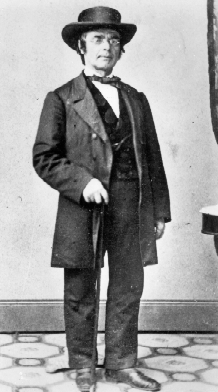 Photo of Henry E. Steinway (born Heinrich Engelhard Steinweg), 1791–1871, founder of Steinway & Sons. This studio photo was taken by the noted civil war photographer, Mathew Brady.